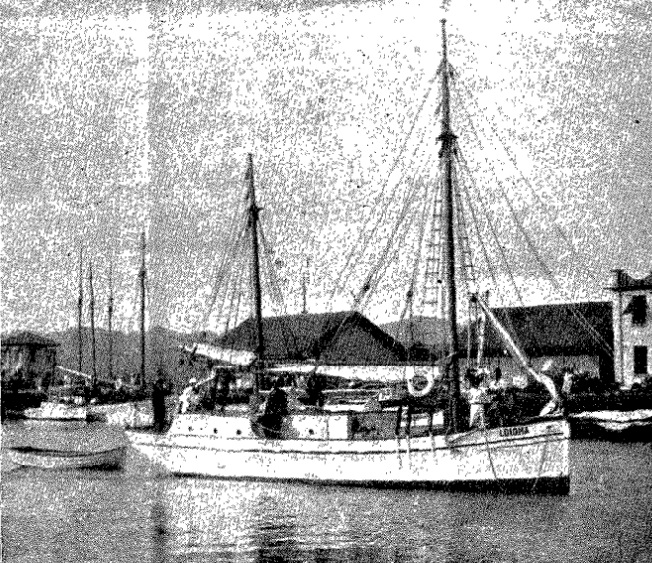 The New Hebrides Adventist mission boat, the cutter, "Loloma," in stream a few hours before sailing for Vila, 1926. In the colonial New Hebrides, the present day nation of Vanuatu.